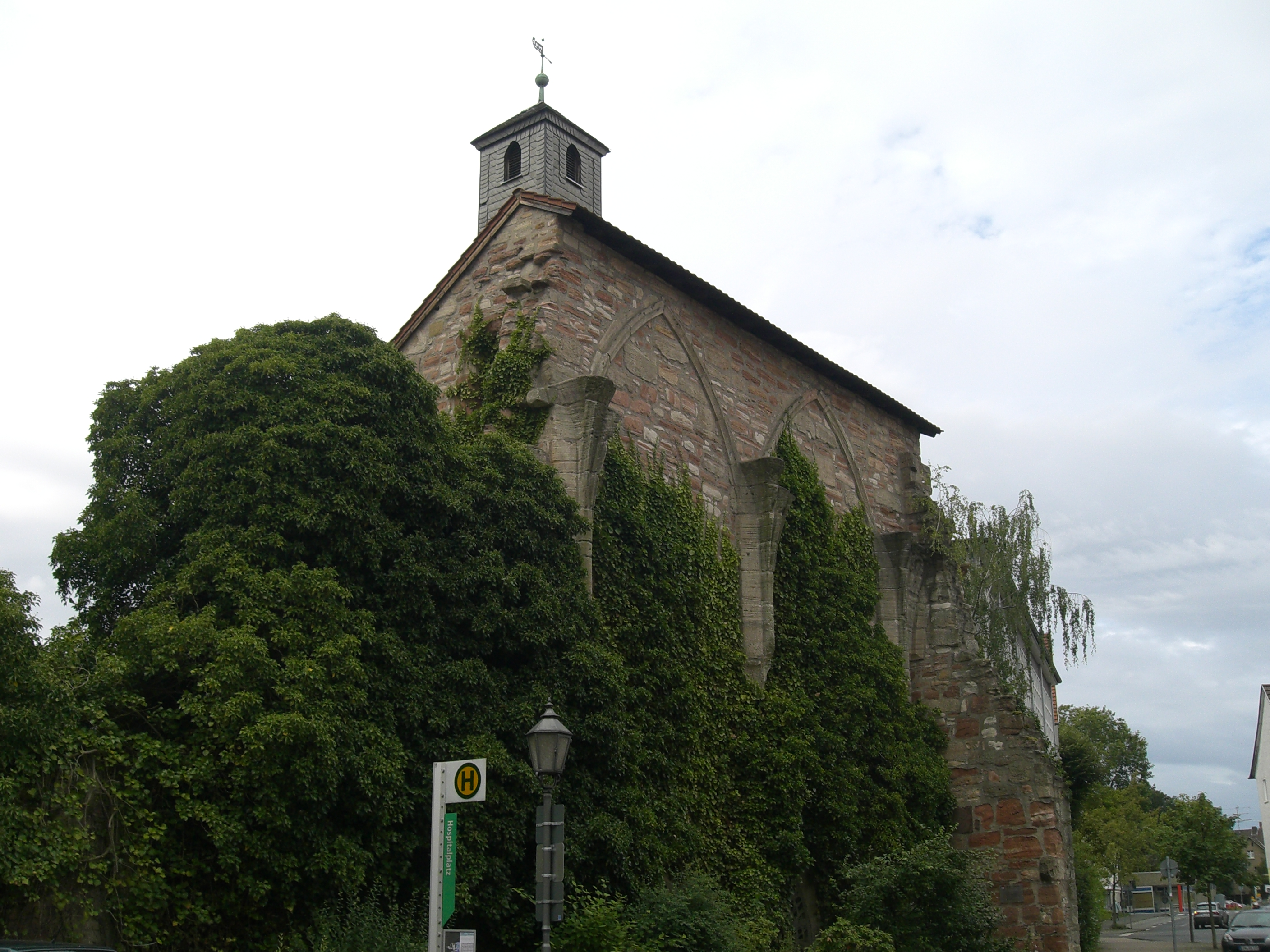 Church, remnant of former Augustinians' monastery at Hospitalplatz in Eschwege, Hesse, Germany